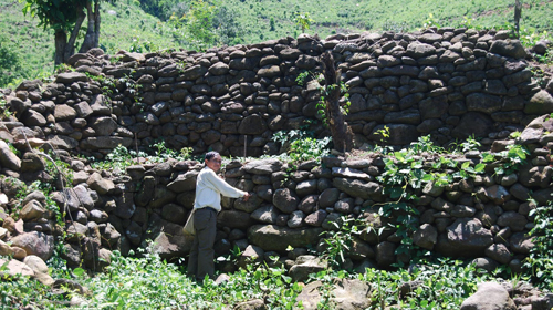 Truong Luy architectural relic was recognized by the Quang Ngai central province’s Department of Culture, Information, and Tourism as the national heritage on March 10, 2011